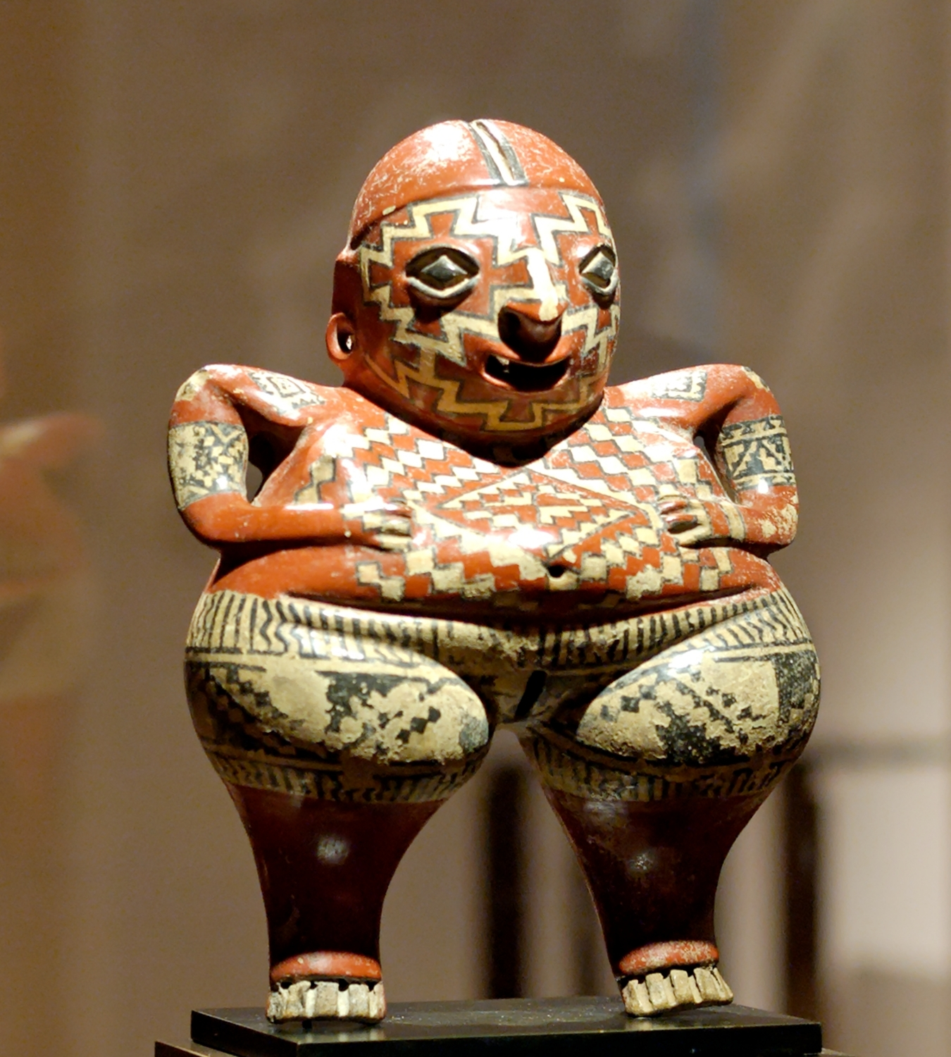 Statuette of the Chupícuaro people. Terracotta, Mexico, 7th-2nd century BC.